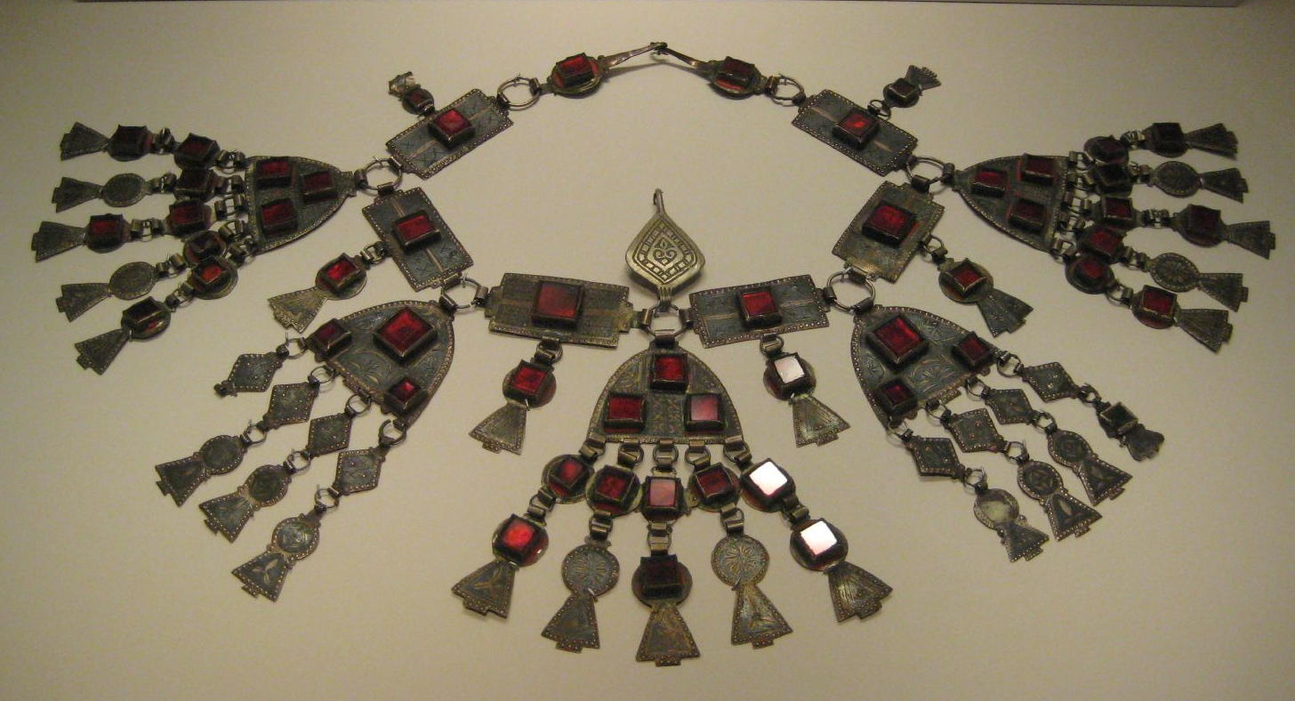 Head ornament (silver with niello decoration, glass, wax and leather) 19th century Ida Ou Nadif Peoples, Western Anti Atlas Morocco. Now in the National Museum of African Art, Washington DC.